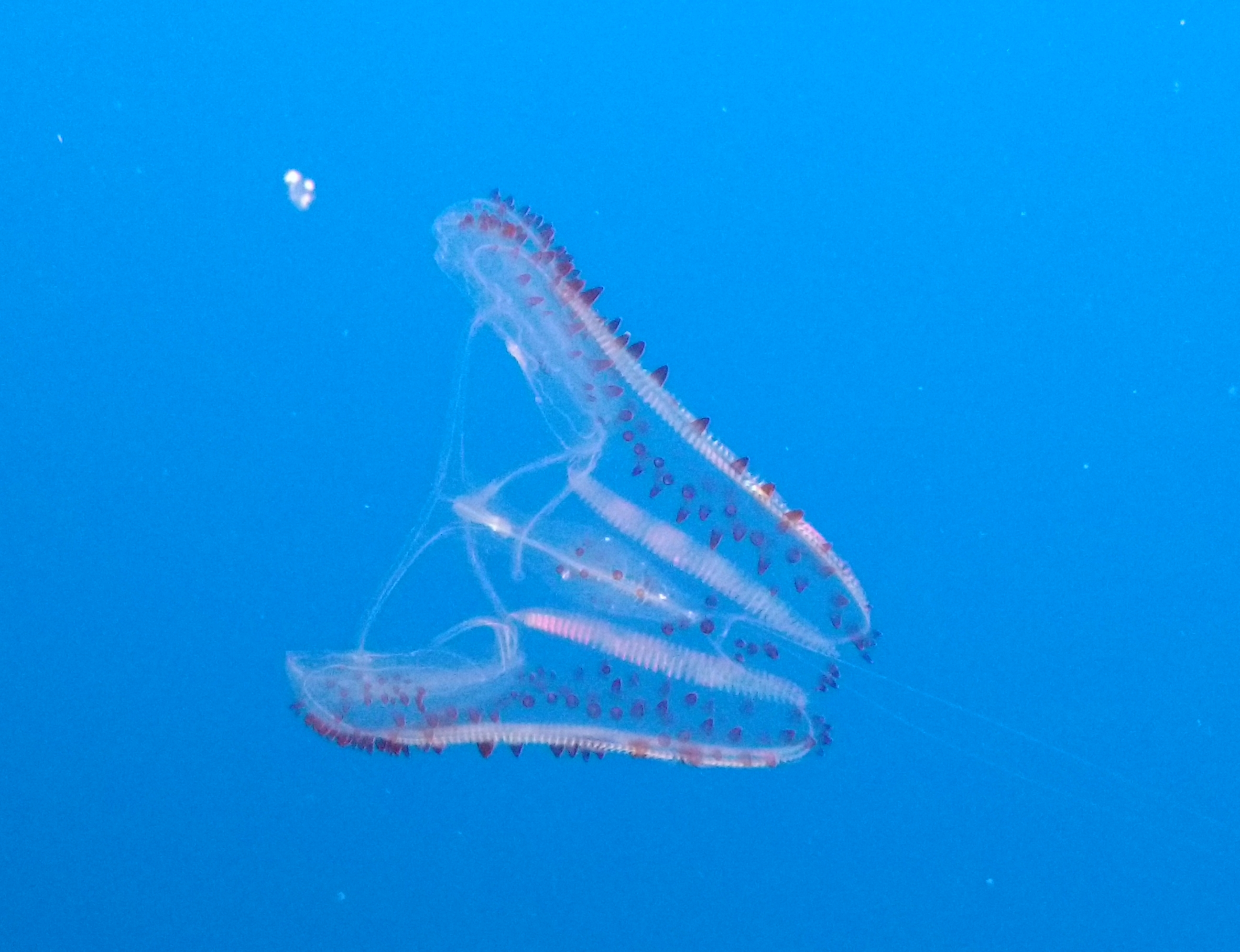 Leucothea pulchra (CA)